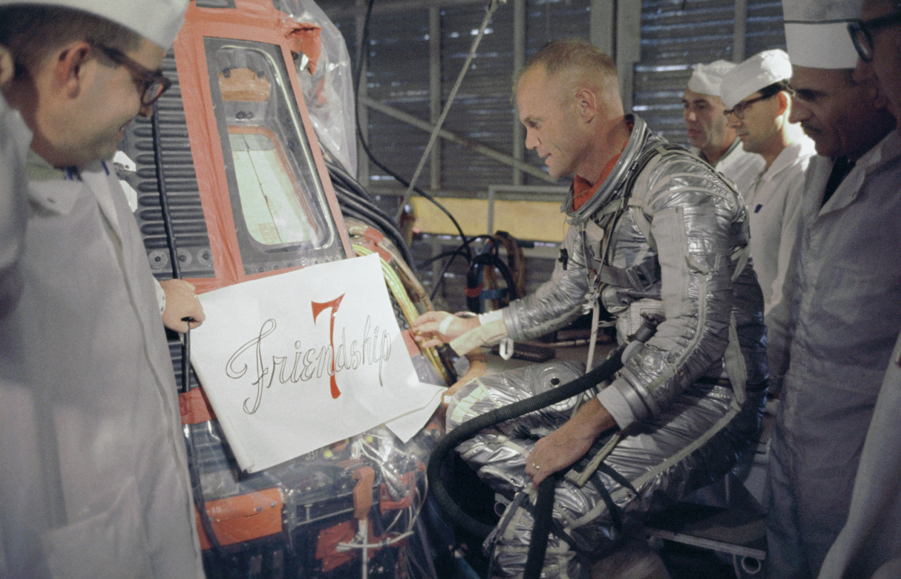 Astronaut John Glenn and technicians inspect artwork that will be painted on the outside of his Mercury spacecraft. John Glenn nicknamed his capsule "Friendship 7". On February 20, 1962 astronaut John H. Glenn Jr. lifted off into space aboard his Mercury Atlas (MA-6) rocket and became the first American to orbit the Earth. After orbiting the Earth 3 times, Friendship 7 landed in the Atlantic Ocean 4 hours, 55 minutes and 23 seconds later, just East of Grand Turk Island in the Bahamas. Glenn and his capsule were recovered by the Navy Destroyer Noa, 21 minutes after splashdown. Image # : S64-14854